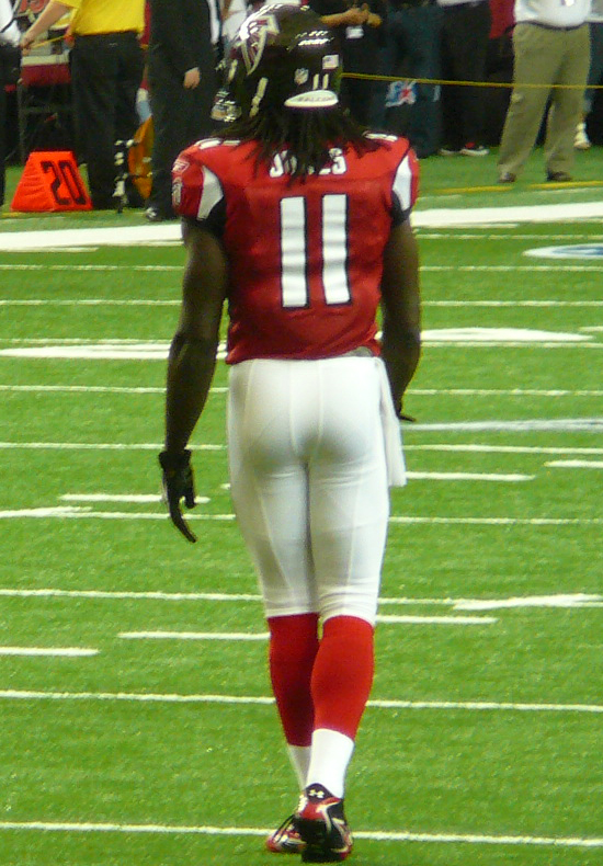 If used somewhere other than Wikipedia, Nelson, by name.